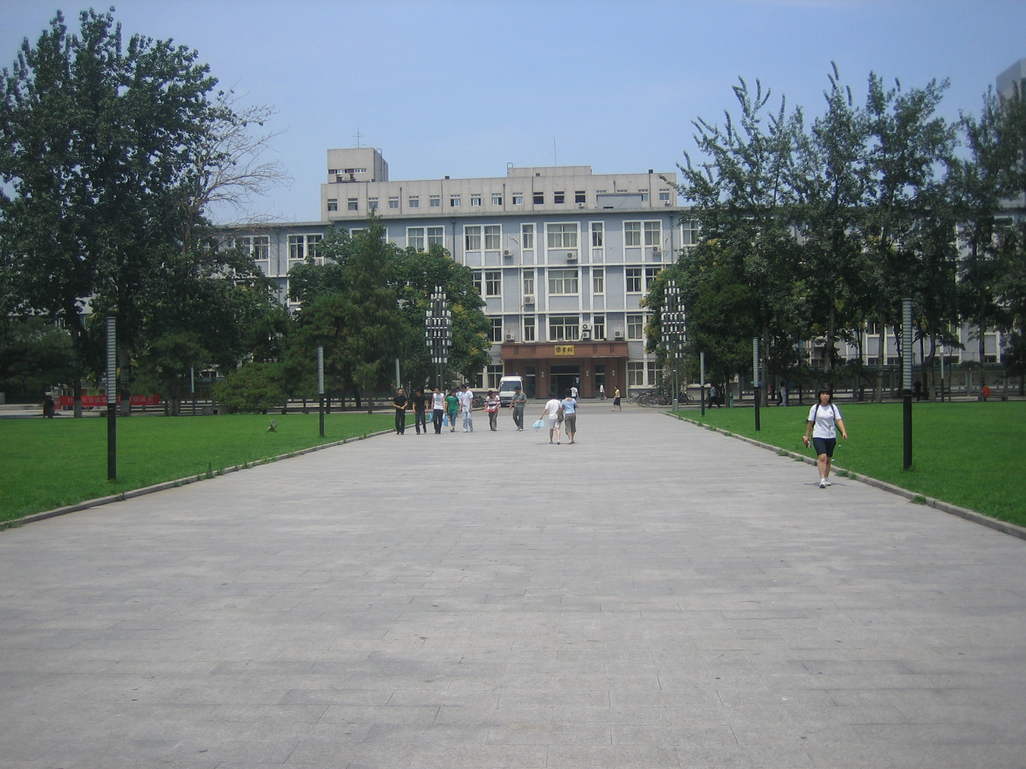 Diakiw, personal photo